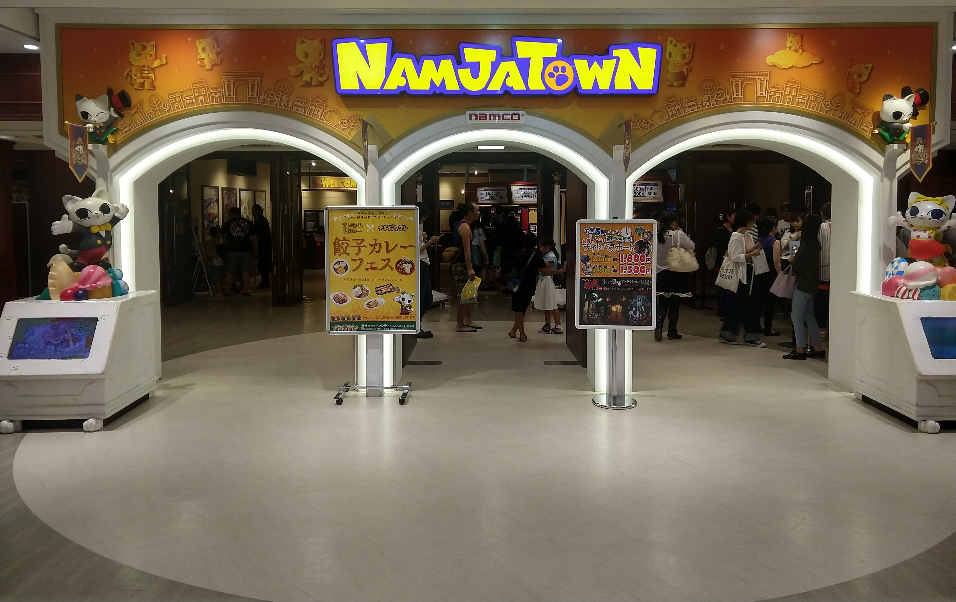 Namco NamjaTown entrance at Sunshine City, Tokyo. It is an indoor theme park.